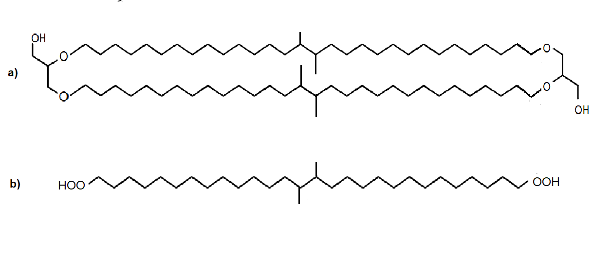 Fatty acids and lipids in Thermotoga a) a fatty acid containing 32 carbon atoms (15,16-dimethyltriacontanedioic acid, C32H62O4) b) an ether lipid